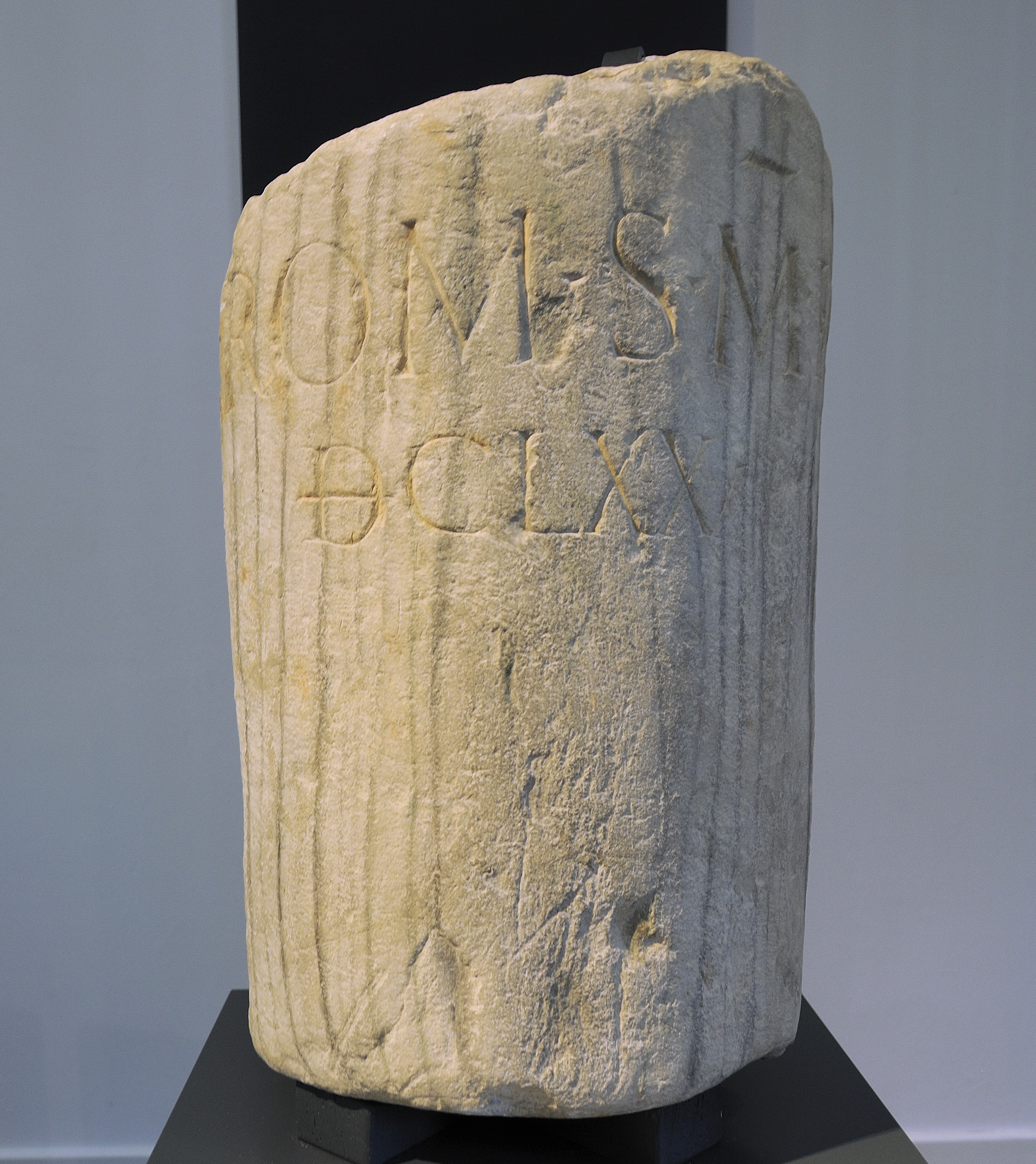 Picture taken in the Roman history museum in Osterburken.